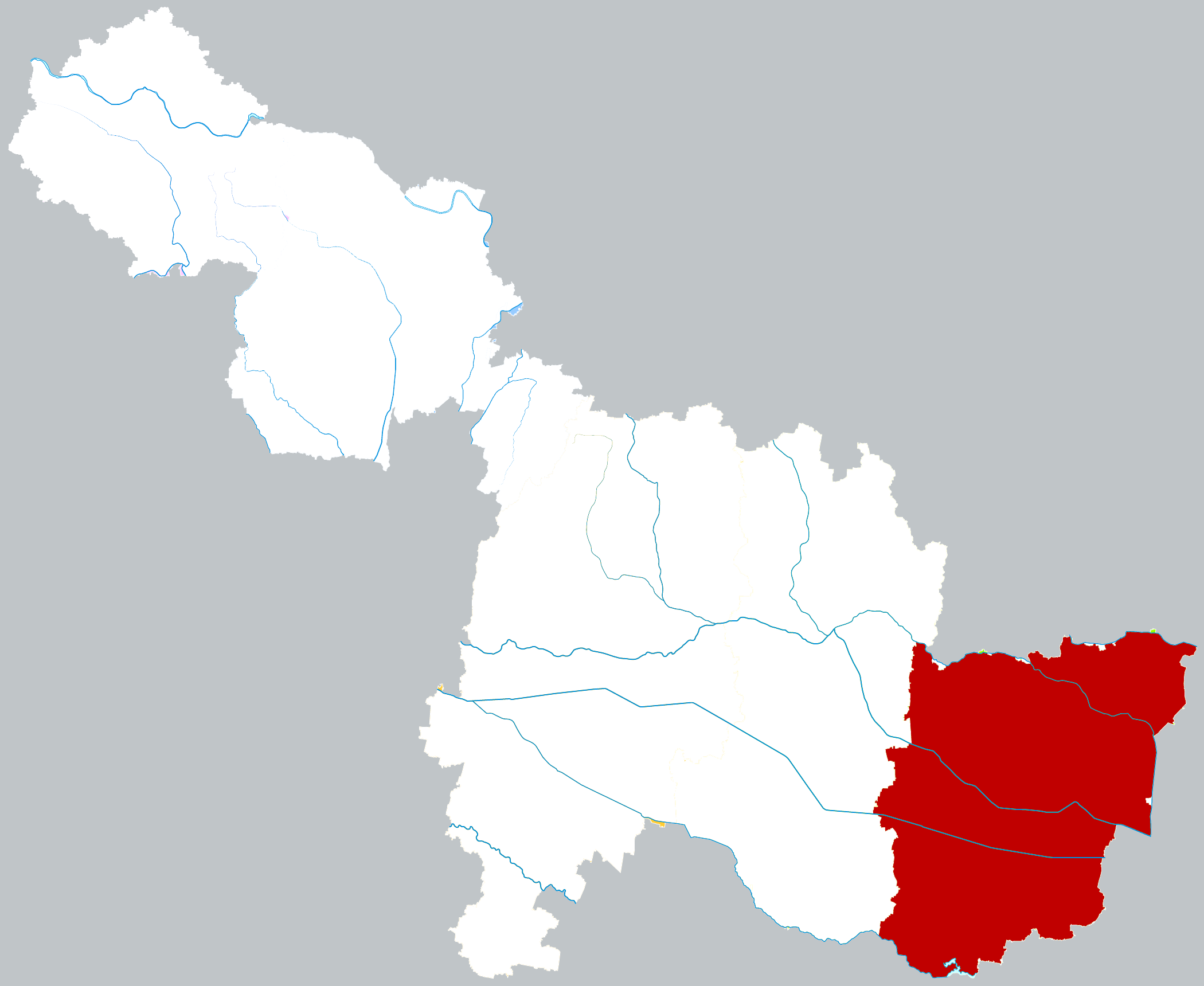 Location of Si county in Suzhou city, Anhui province, China